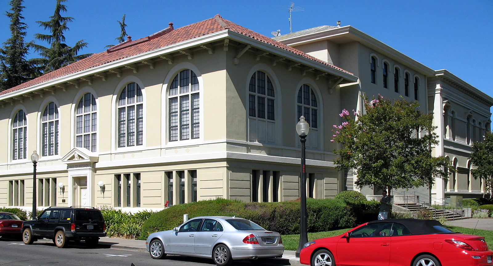 National Register of Historic Places listings in Napa County, California. Napa County Courthouse Plaza, Napa, California